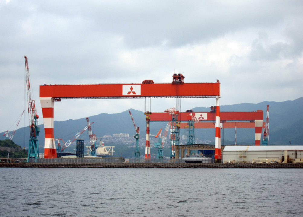 Mitsubishi Nagasaki Shipyard in Nagasaki, Japan Canon PowerShot S95